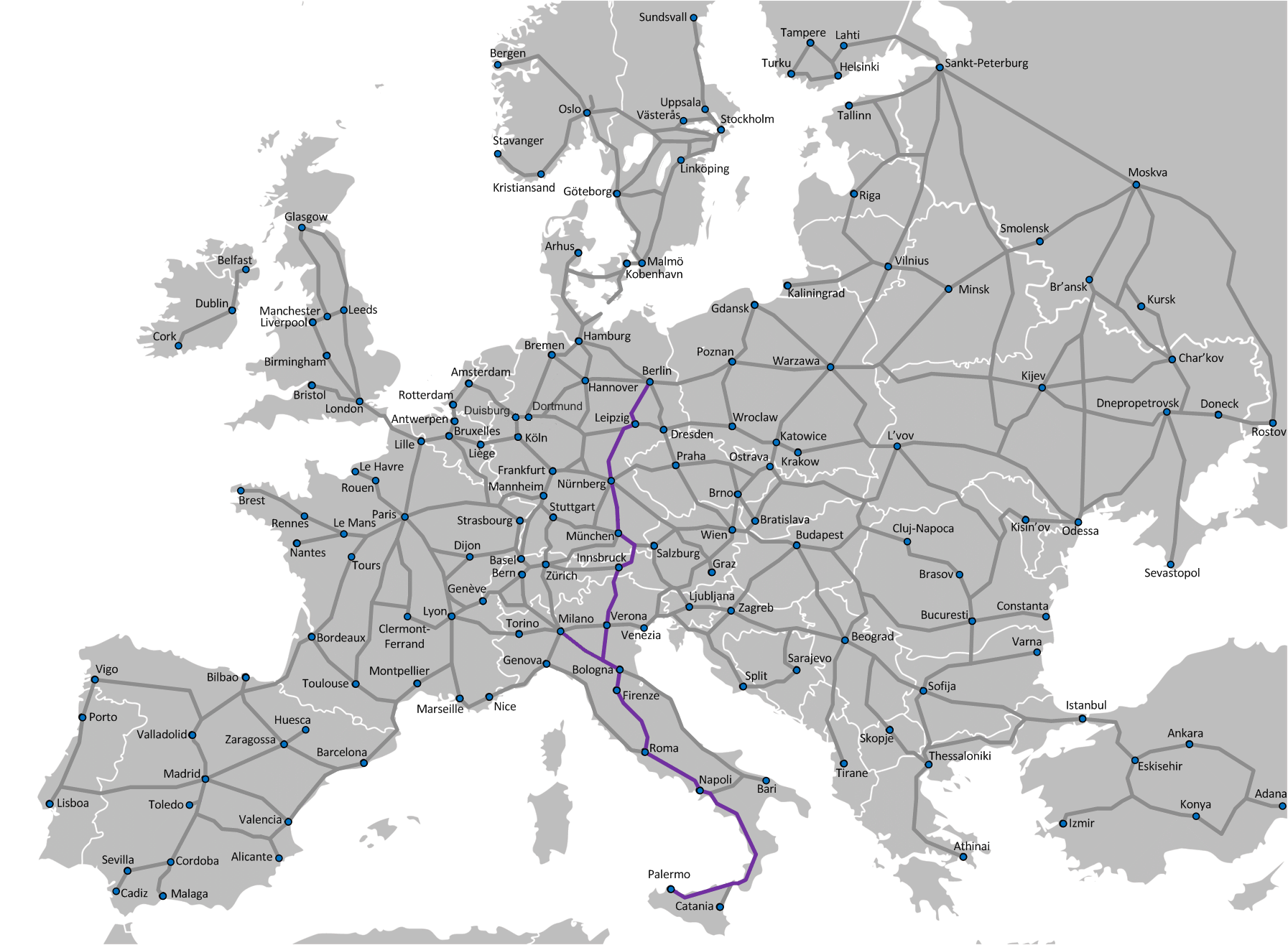 Trans-European Networks Project 1 (TEN 1) - High Speed Railway Line Berlin–Palermo